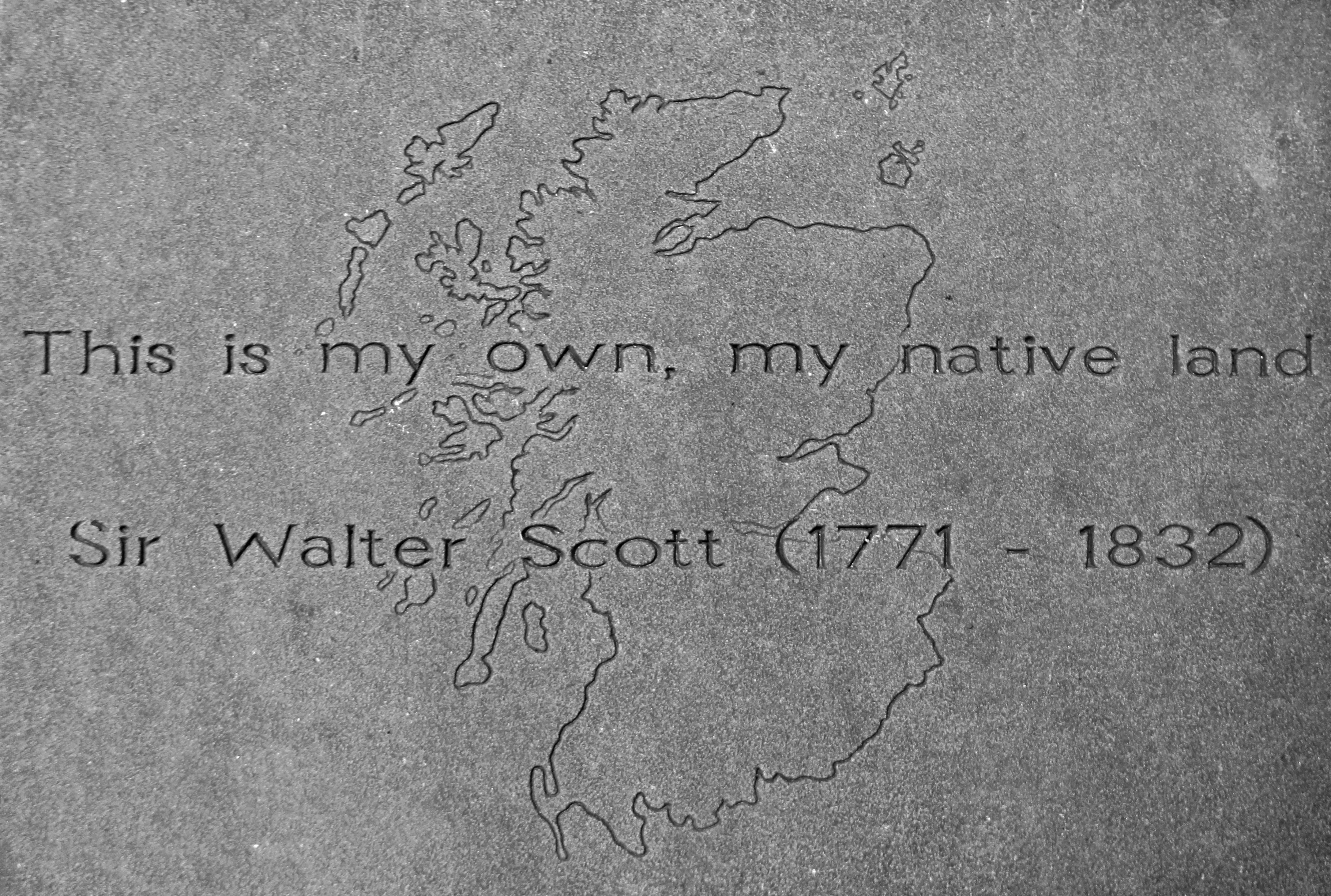 Sir Walter Scott's stone slab on Makars' Court next to the Scottish Writers' Museum in Lady Stair's Close, Edinburgh, Scotland. The following quotation is taken from The Lay of the Last Minstrel (1805): Breathes there the man, with soul so dead, Who never to himself hath said, This is my own, my native land!